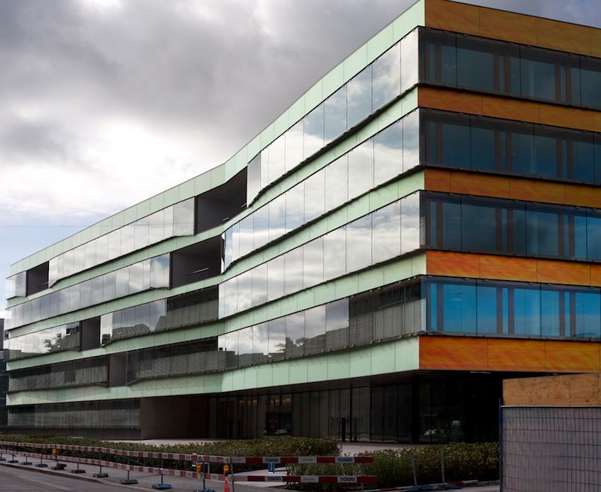 A children's hospital in Basel, Switzerland, pictured in September 26, 2010. This is an edited version of a Creative Commons Attribution 2.0 Generic image (which explictly allows for free remixing and editing) taken by photographer a/ Alessandro Reginato.